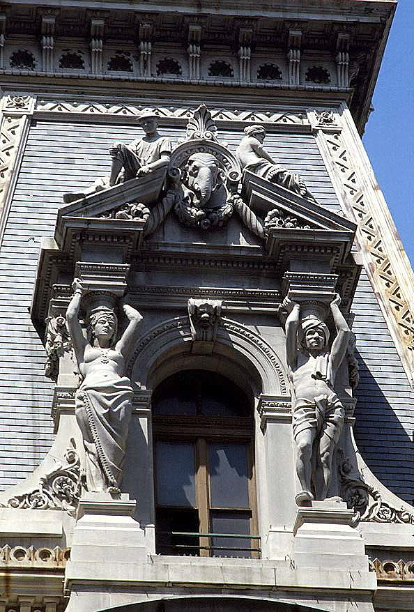 2nd Empire ornamentation - Philadelphia USA